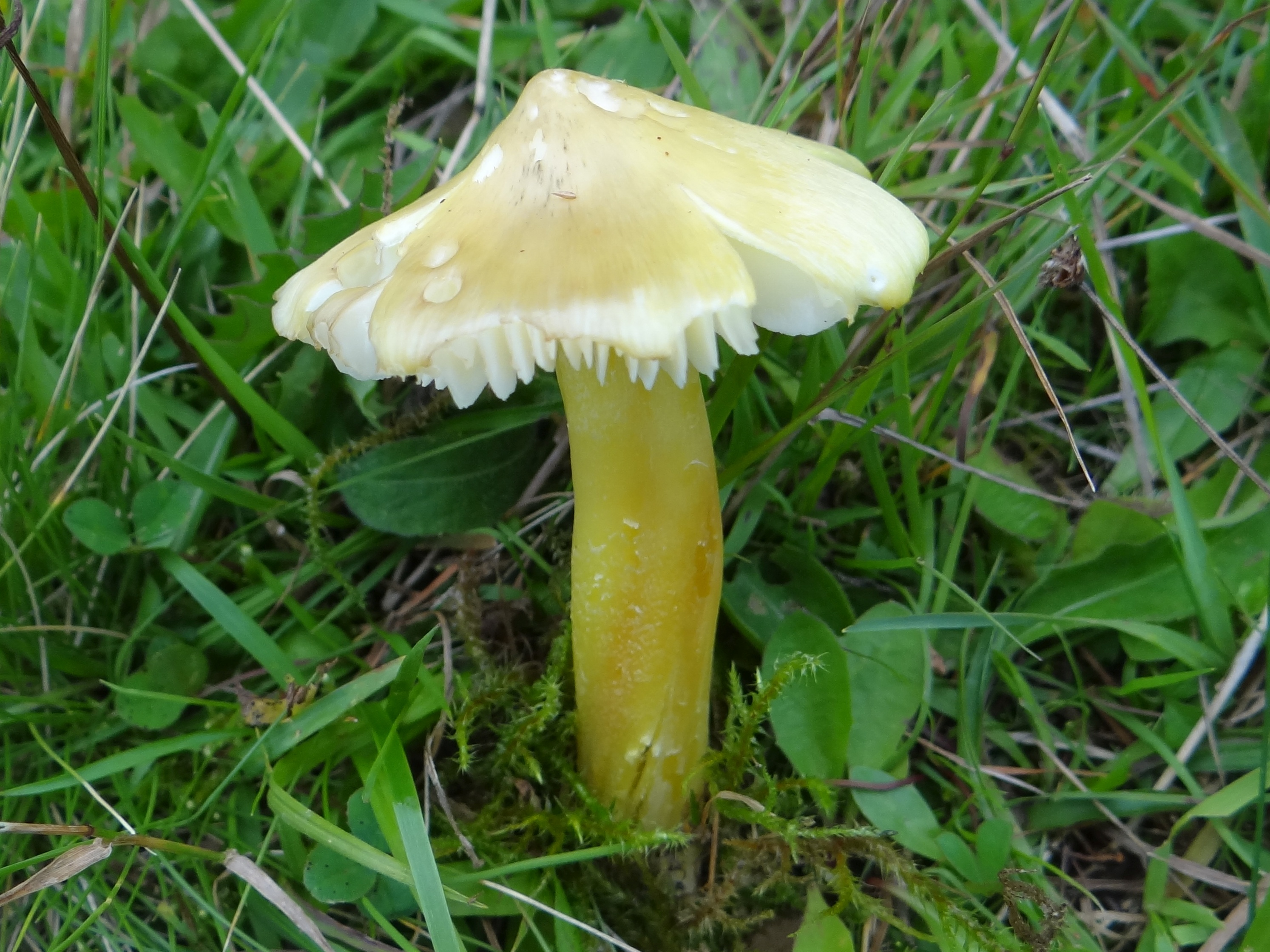 Hygrocybe citrinovirens (location: Spišská Magura, Osturňa)